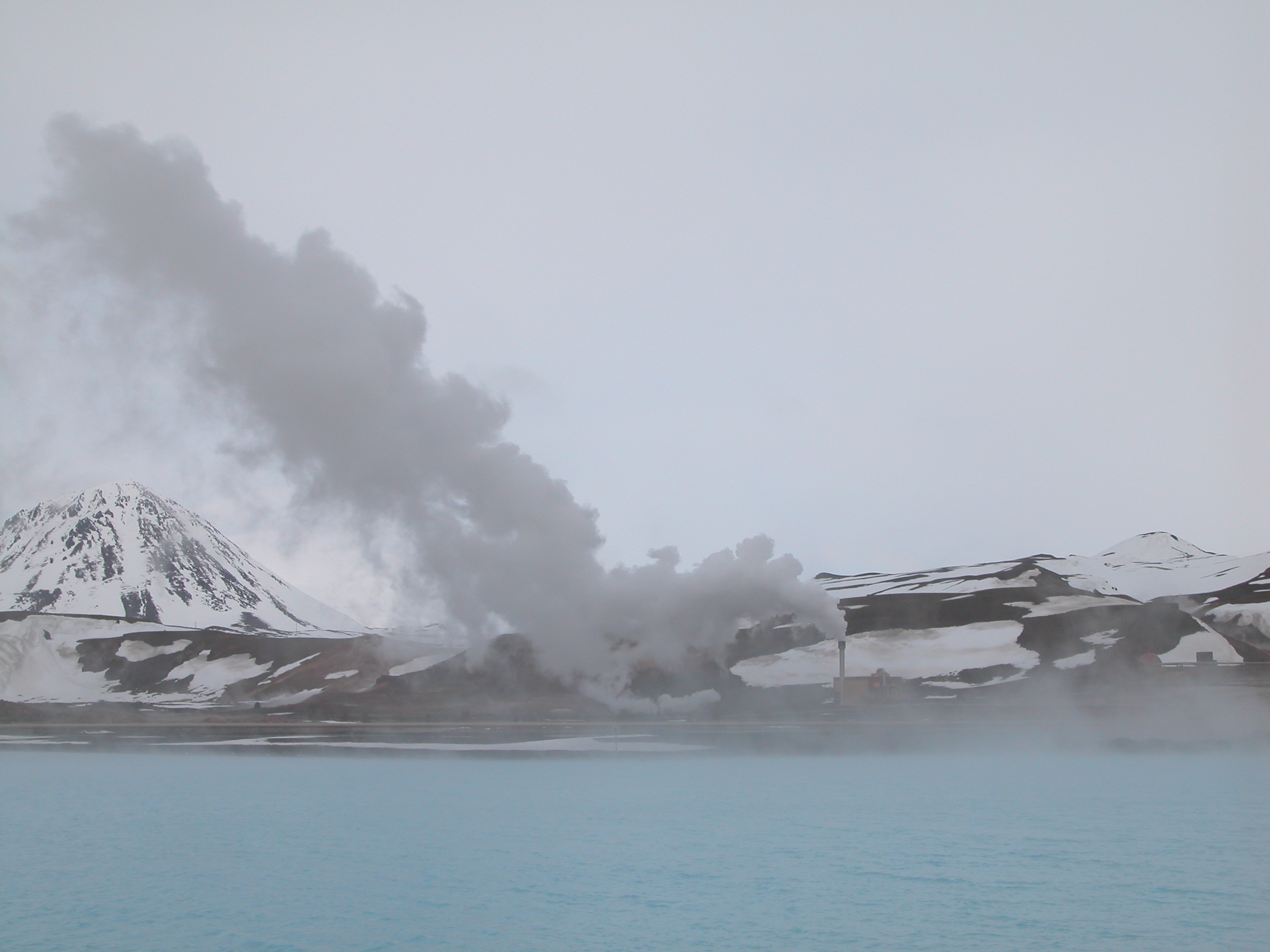 Geotermich electric production, near Reykjahlíð